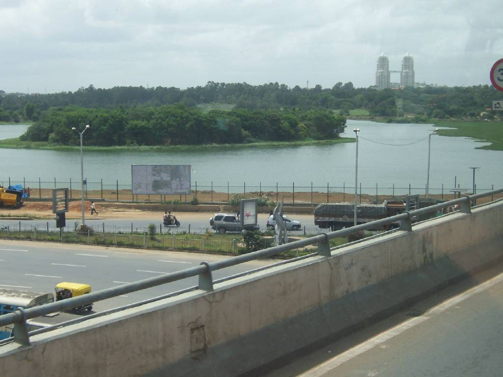 En route to the new airport . . . this is Hebbal lake. There seems to be some sort of controversy about it, maybe "they" are going to vanish it?